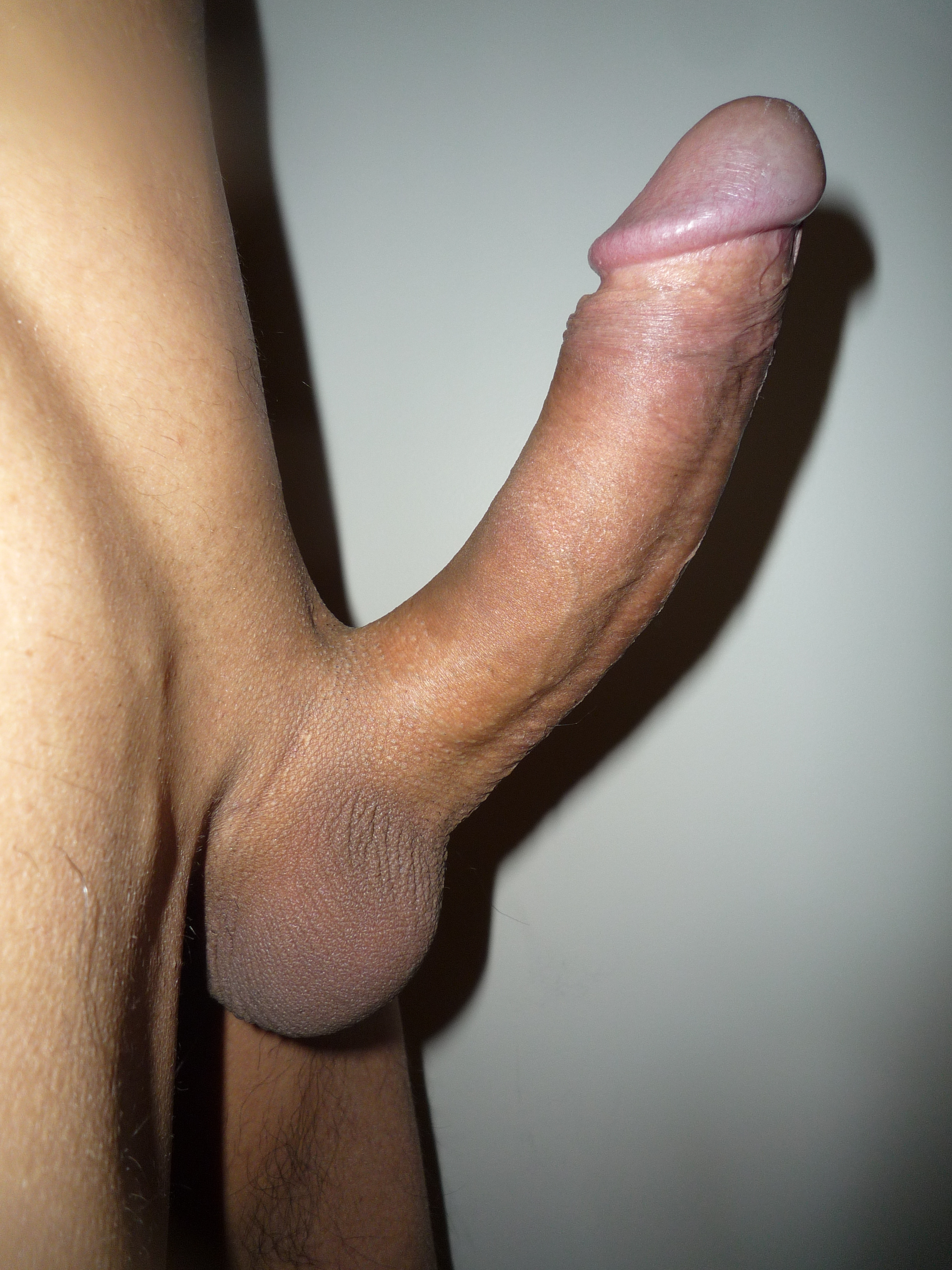 Human penis